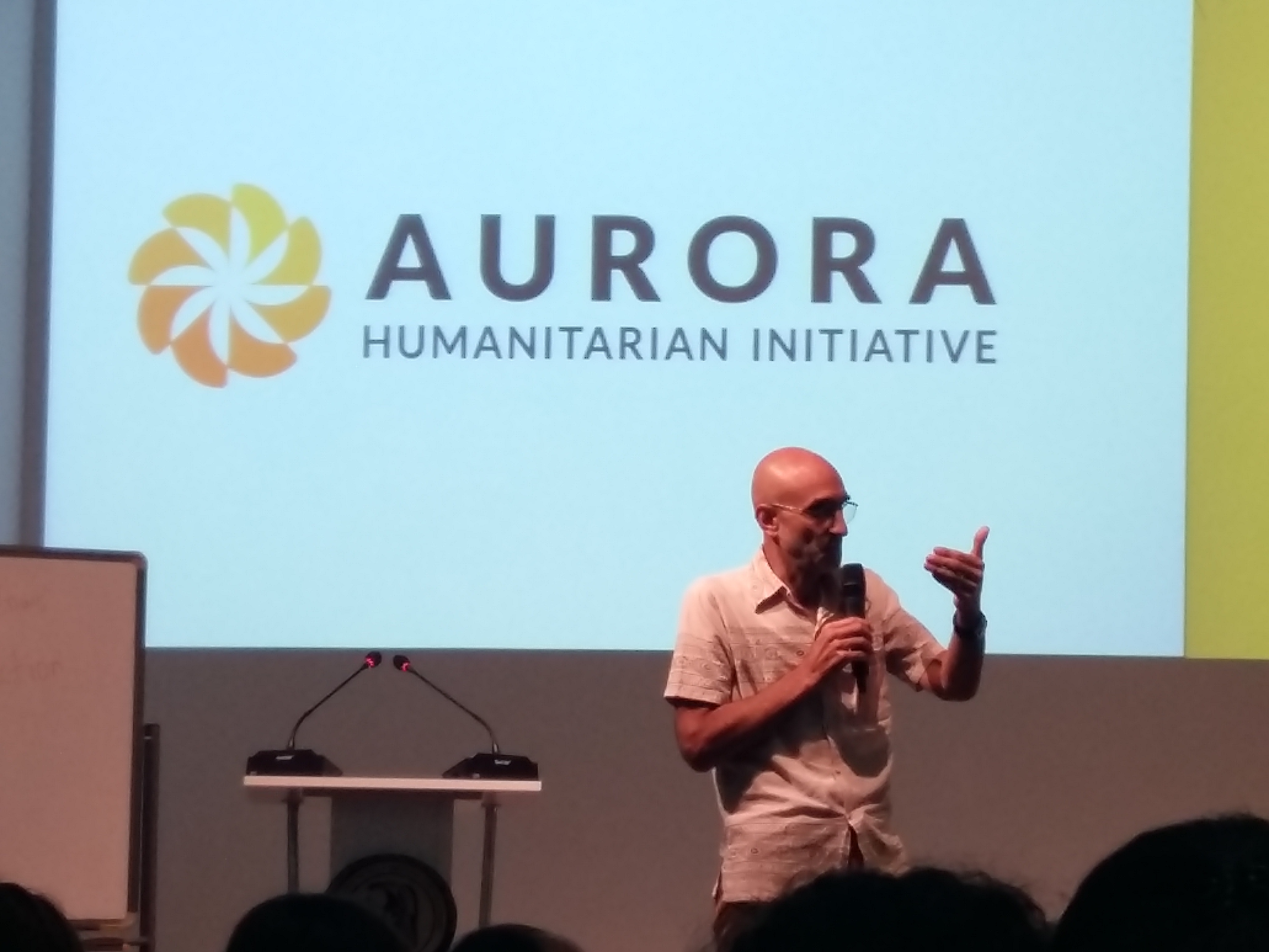 Tom Catena visiting Yerevan in the frames of Aurora Prize for Awakening Humanity. Catena giving speech "Gratitude in action" at Yerevan State Medical University after Mkhitar Heratsi.